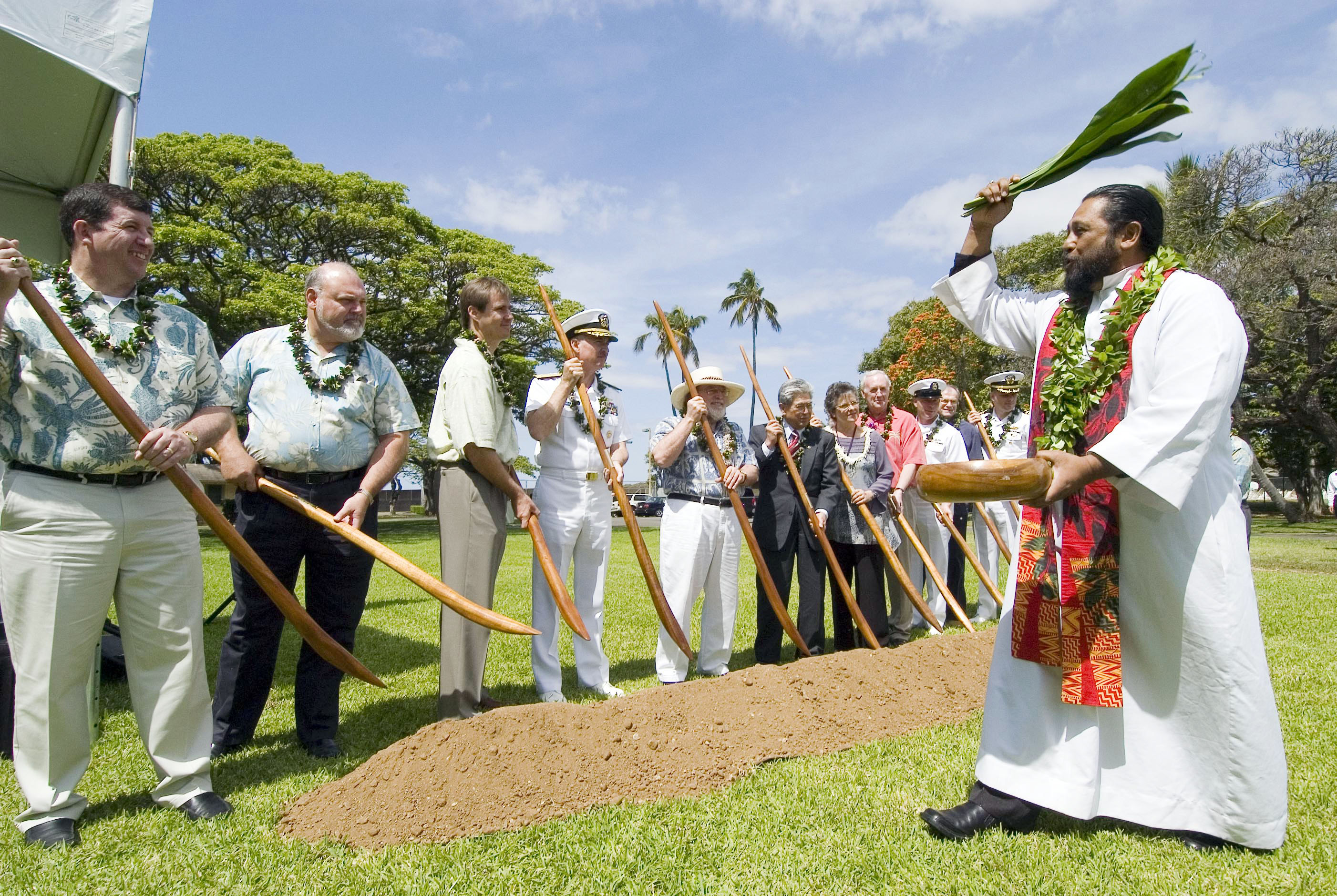 PEARL HARBOR, Hawaii (April 03, 2007) - Kuhu Kaleo Patterson performs a traditional Hawaiian blessing as Commander, Navy Region Hawaii (CNRH) Rear Adm. T. G. Alexander, center, joined on his left by Rep. Neil Abercrombie, and Sen. Daniel K. Akaka, along with representatives of Forest City Military Communities and CNRH use Hawaiian o-o sticks during a military housing groundbreaking ceremony on Ford Island. The groundbreaking represents phase-two of a joint venture between CNRH and Forest City Military Communities Hawaii to construct more than 800 new single-family homes on Ford Island. U.S. Navy photo by Mass Communication Specialist Seaman Paul D. Honnick